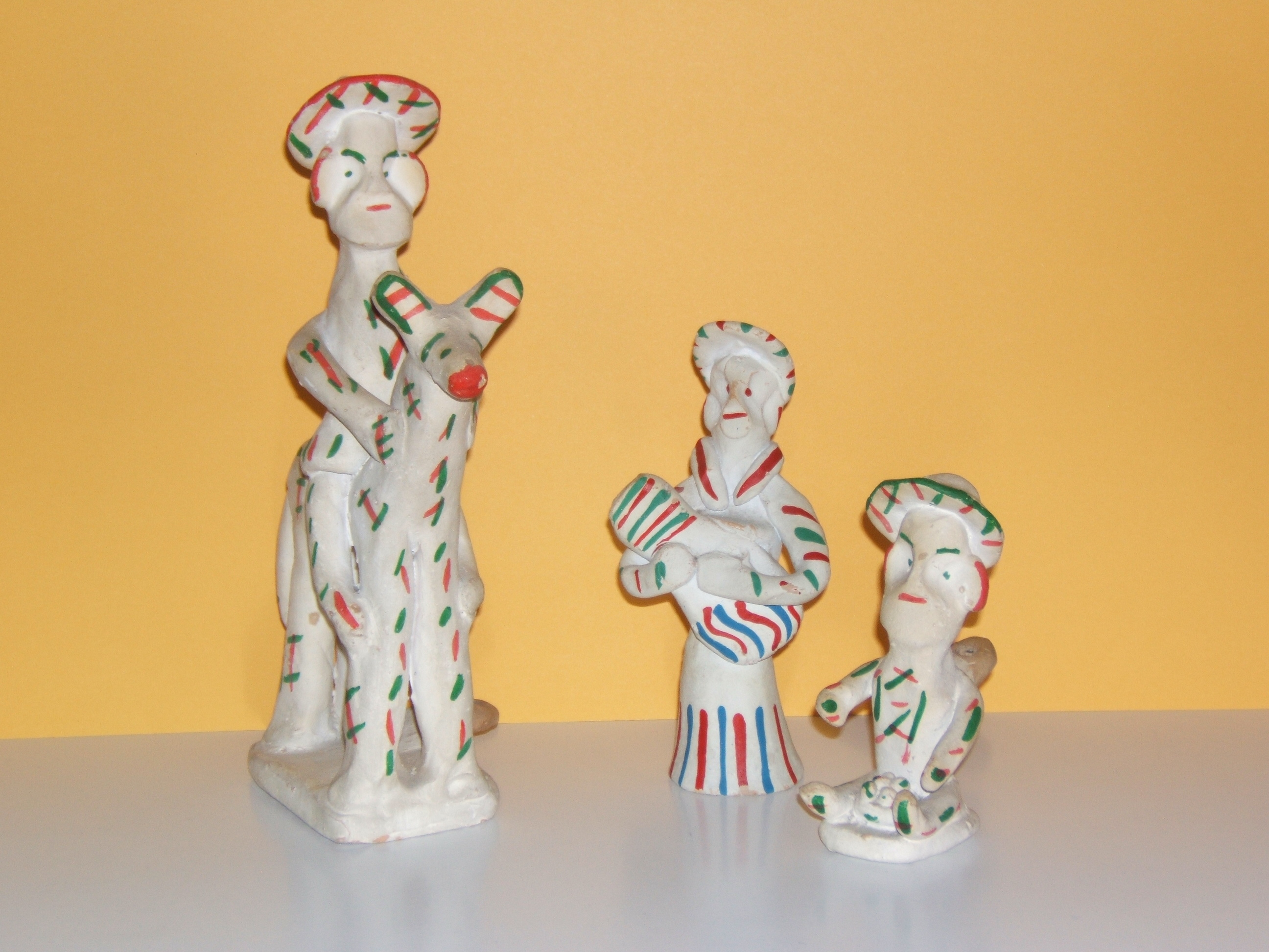 Siurells (whistles) of Mallorcan popular pottery (Balearic Islands, Spain)